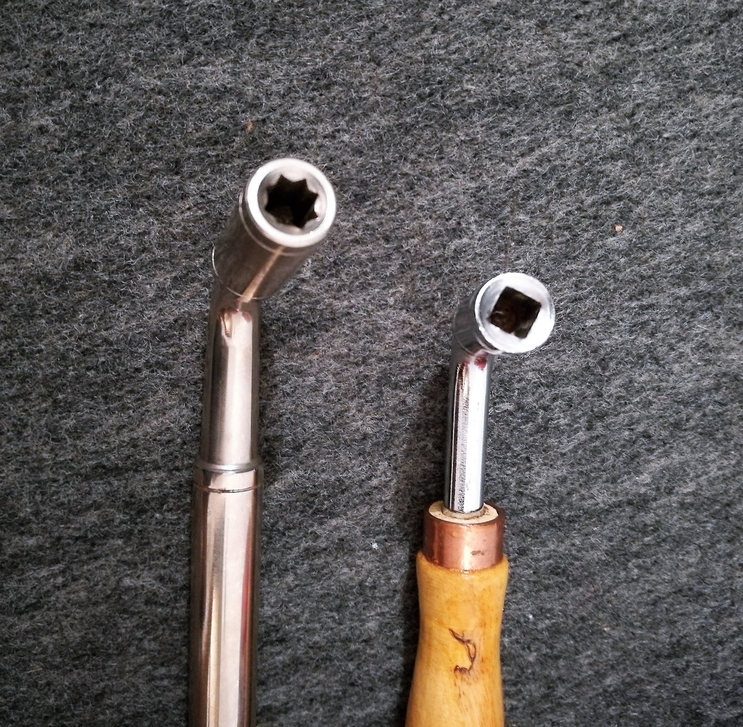 Tuning mechanisms for stringed instruments